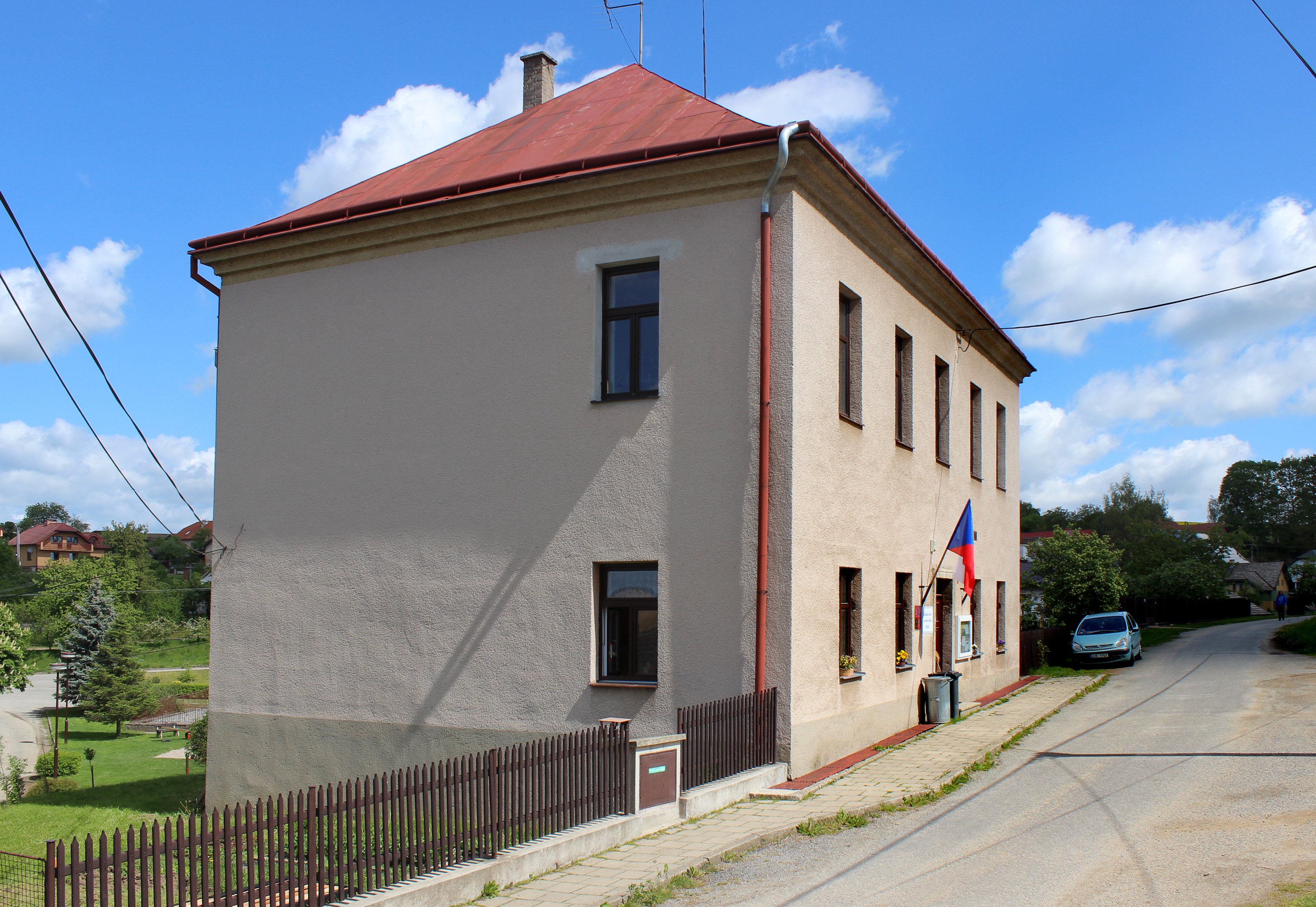 Elementary school in Brzkov, Czech Republic